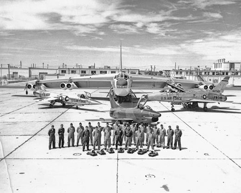 Walter J. Boyne (back row, fourth from left) was a member of the 4925th Test Group (Nuclear) at Kirtland Air Force Base in New Mexico. In addition to two B-47s (not pictured), the group’s fleet included two Boeing B-52s (one is pictured in the rear) and three fighters — from left, a Lockheed F-104, a Fiat G-91, and a North American F-100. Photo is from the Air & Space Magazine article, The Dawn of Discipline, and is credited to the United States Air Force (USAF).